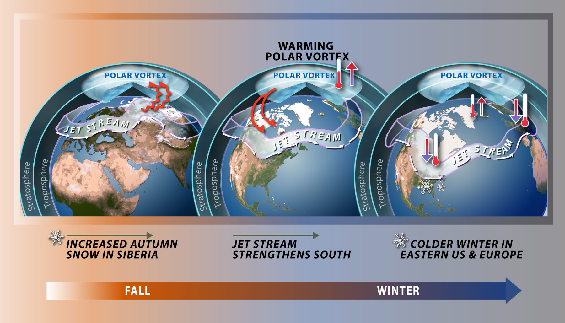 Shows how variations in the polar vortex affects weather in the mid-latitudes